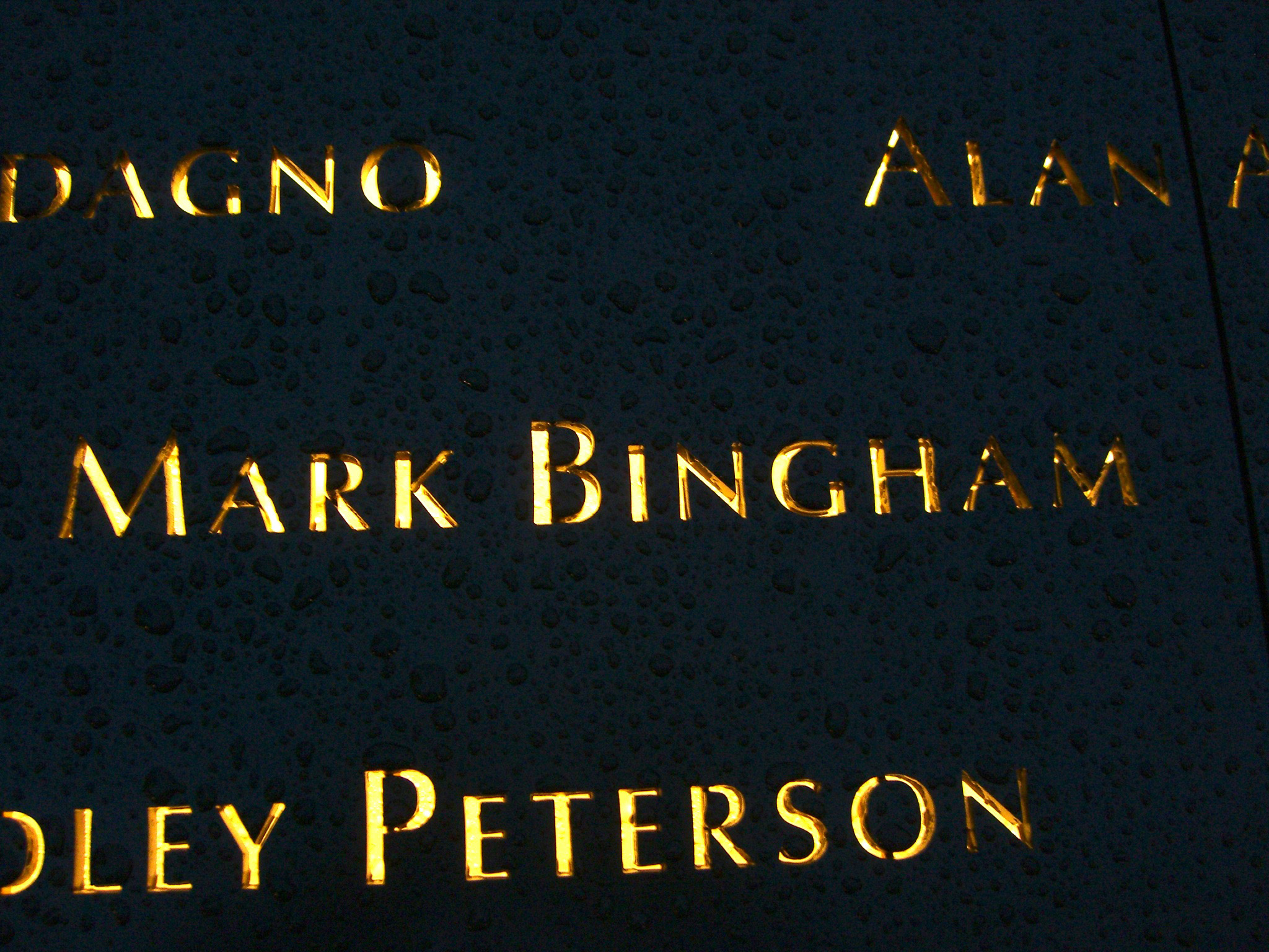 The name of Mark Bingham is seen among those of other 9/11 victims from United Airlines Flight 93 inscribed on bronze panel S-67 of the South Pool of the National September 11 Memorial in Manhattan, on December 6, 2011. This photo was created by Luigi Novi. If you have any questions, you can contact me by sending me an email or User talk:Nightscream